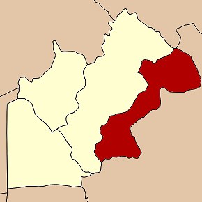 Map of Nakhon Nayok Province, Thailand, highlighting the district Pak Phli (อำเภอปากพลี)